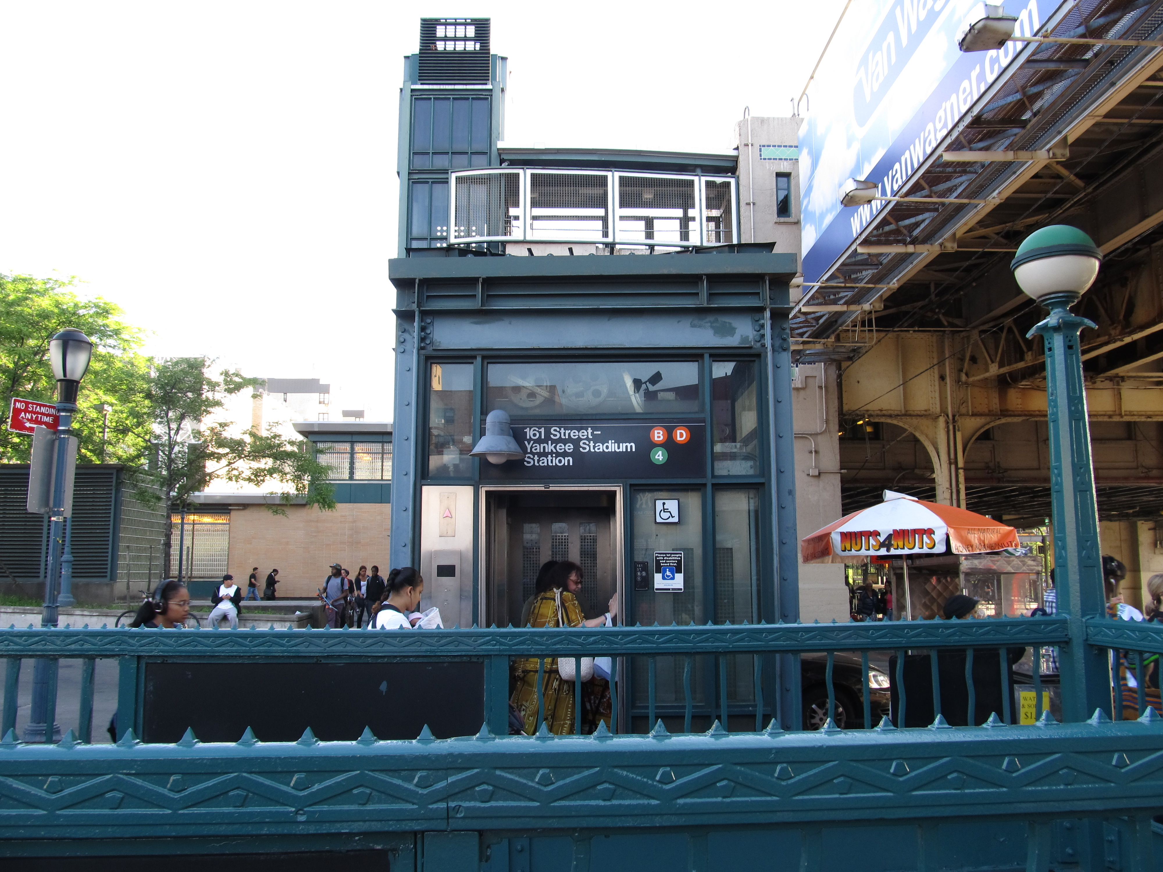 161st Street – Yankee Stadium is a New York City Subway station complex shared by the elevated IRT Jerome Avenue Line and the underground IND Concourse Line. Located at the intersection of 161st Street and River Avenue in the Bronx, it is served by the: 4 train at all times D train at all times except rush hours in the peak direction B train during rush hours Yankee Stadium is outside and many Bronx County courts, government facilities, and shopping districts are a short walk to the east. (Yankee Stadium is also accessible via the MTA's Metro-North via the Yankees – East 153rd Street station.) This is one of only two station complexes in The Bronx (the other being 149th Street – Grand Concourse). When the IND portion was built in 1933, paper tickets were used to transfer between the two lines; this method was used until the 1950s, when the indoor escalators were built. The complex has been fully renovated to include ADA-accessible elevators to all platforms. The combined passenger count for the complex in 2011 was 8,605,893, making it the busiest station in the Bronx and 36th overall.